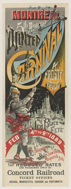 Montreal 5th Annual Winter Carnival, a frosty frolic and ice palace fete : tobogganing, snow shoeraces, masquerade balls.